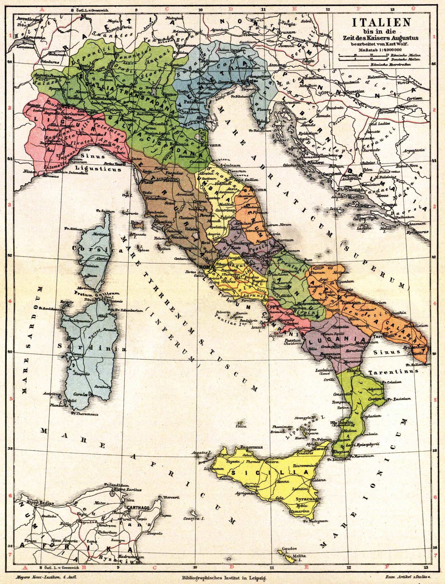 Old map of Italy and Austria, in time period of Caesar Augustus (27 BCE - AD 14). The map has labels in Latin & German, from Volume 9 of German encyclopedia Meyers Konversations-Lexikon.